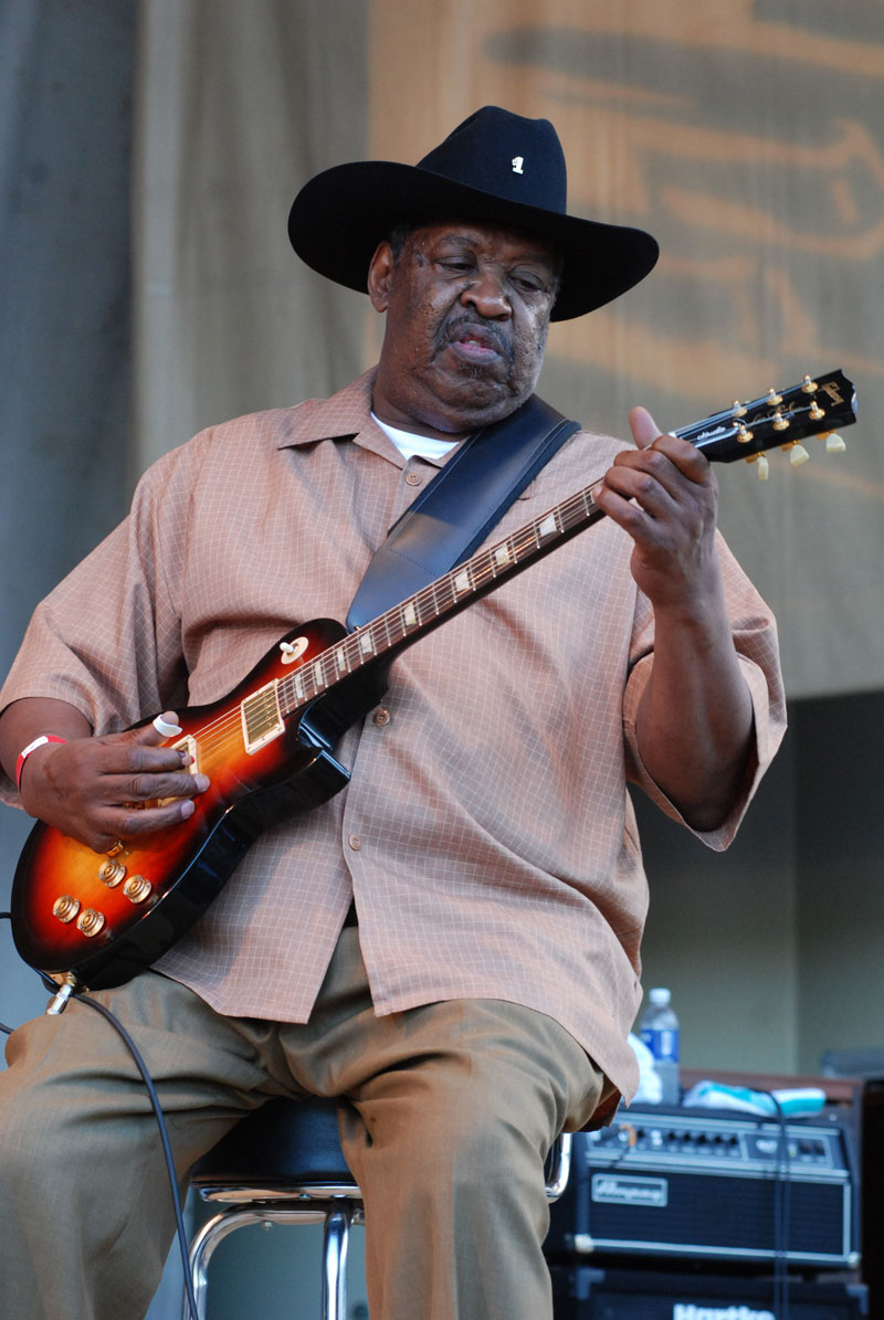 Magic Slim performs at the 25th Annual Chicago Blues Fest. Photo by Adam Bielawski - June 8, 2008